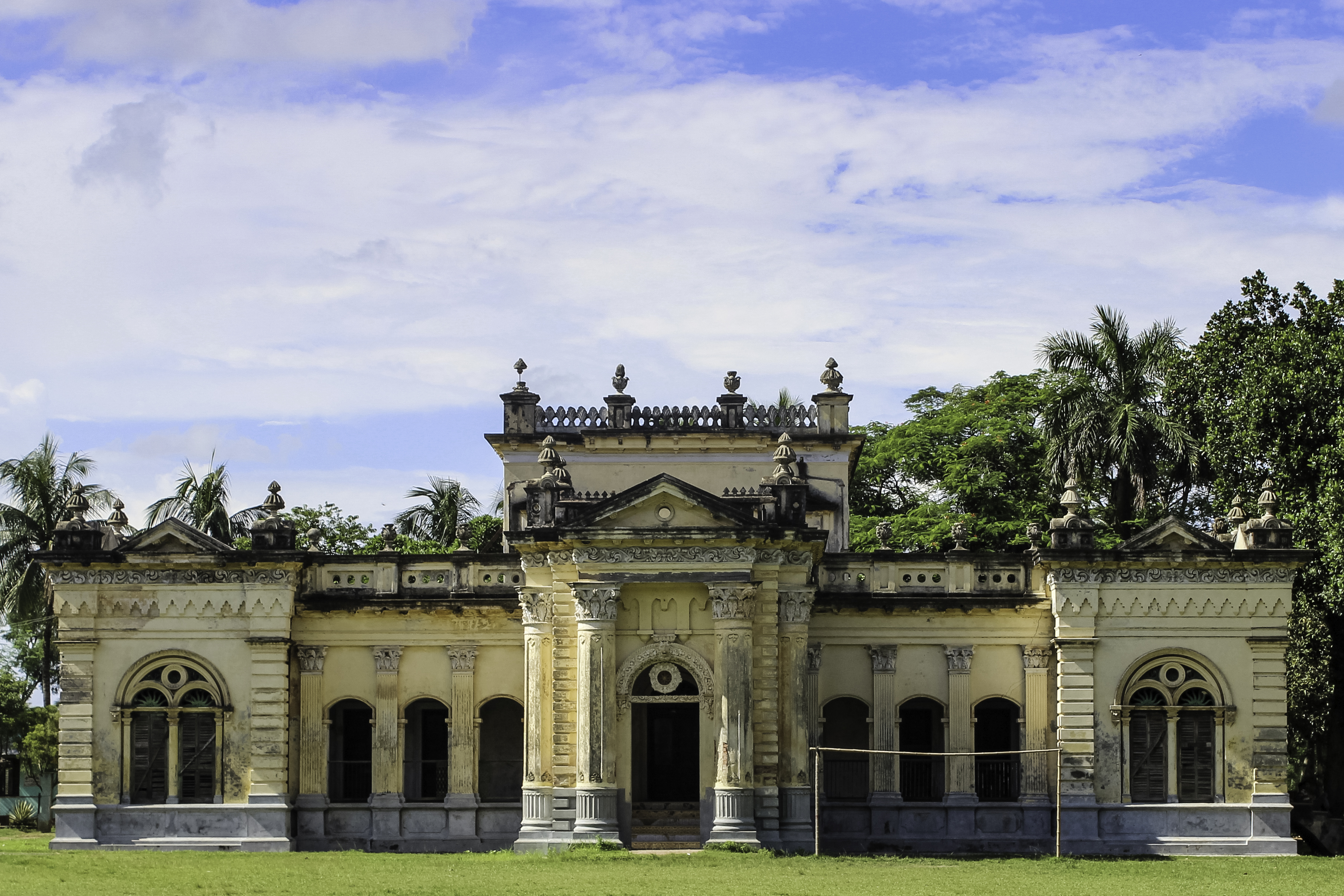 Rani Vabani Rajbari, Natore